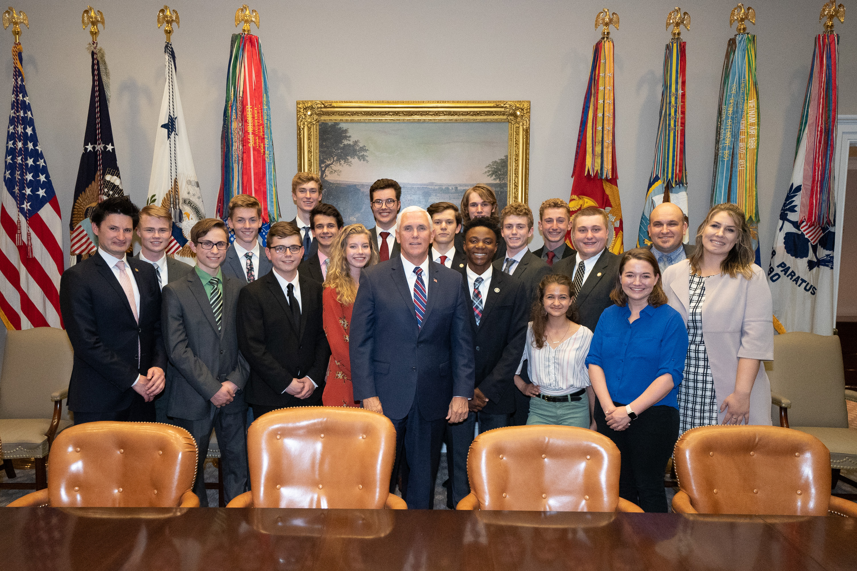 Vice President Mike Pence welcomes Generation Joshua students to the White House Wednesday June 19, 2019 (Official White House Photo by D. Myles Cullen)